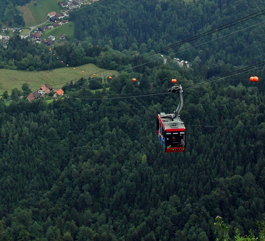 Dornbirn (Austria): Mt. Karren cable-car.